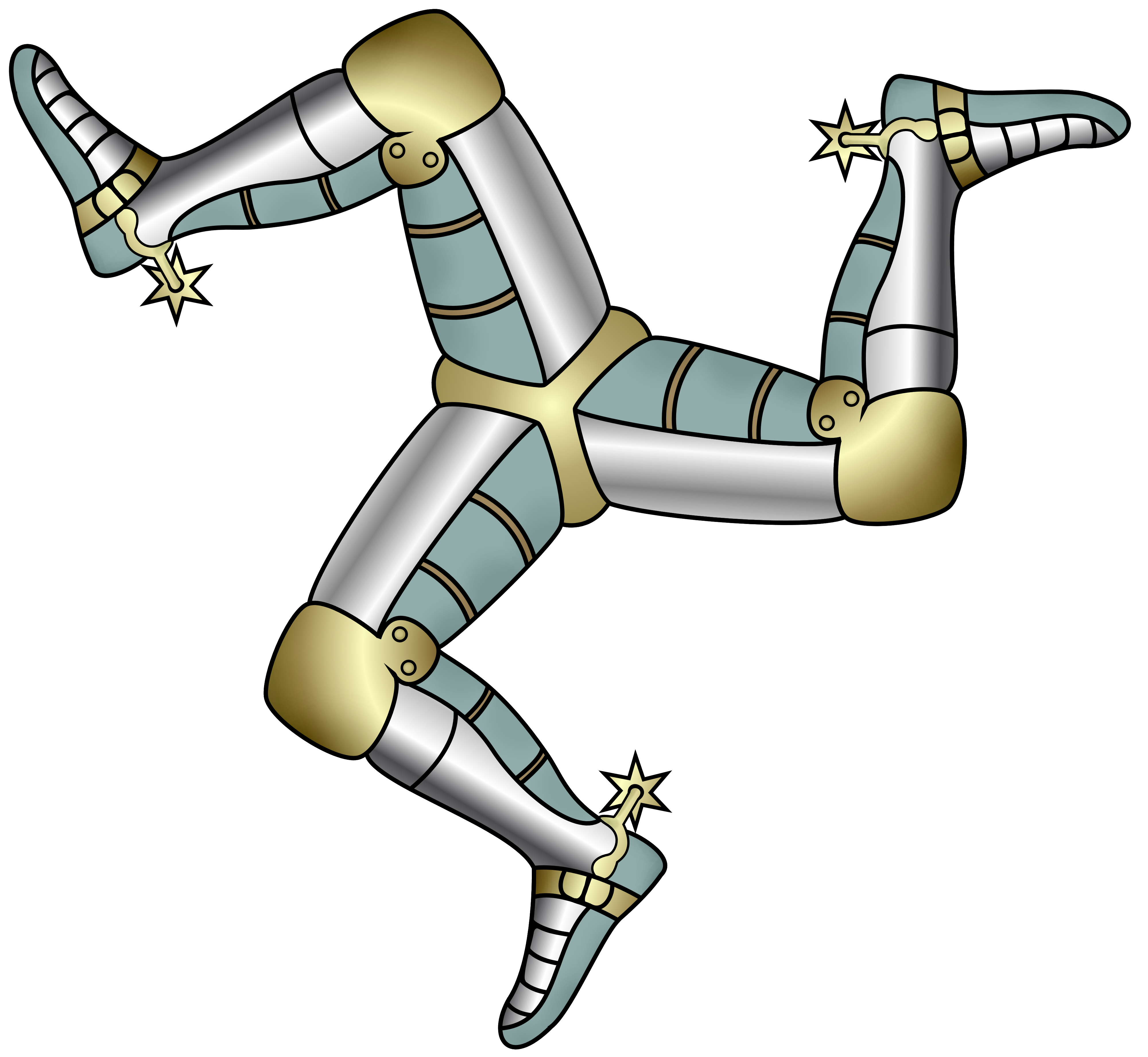 The 'Thee Legs of Man', the national symbol of the Isle of Man.